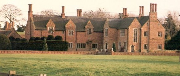 Croxall Hall in Staffordshire. Croxall Hall is a restored and extended 16th century manor house situated at Croxall, Staffordshire ( close to the southeastern border with Derbyshire and once part of that county). It is a Grade II* listed building. The manor of Croxall was owned by the Derbyshire family of Curzon and they rebuilt the old manor house in the late 16th century. It was a substantial property, taxed in 1662 for Hearth Tax purposes as having sixteen hearths. The property passed to the Sackville family following the marriage of Mary Curzon, daughter and heiress of the last male Curzon to Edward Sackville, 4th Earl of Dorset.